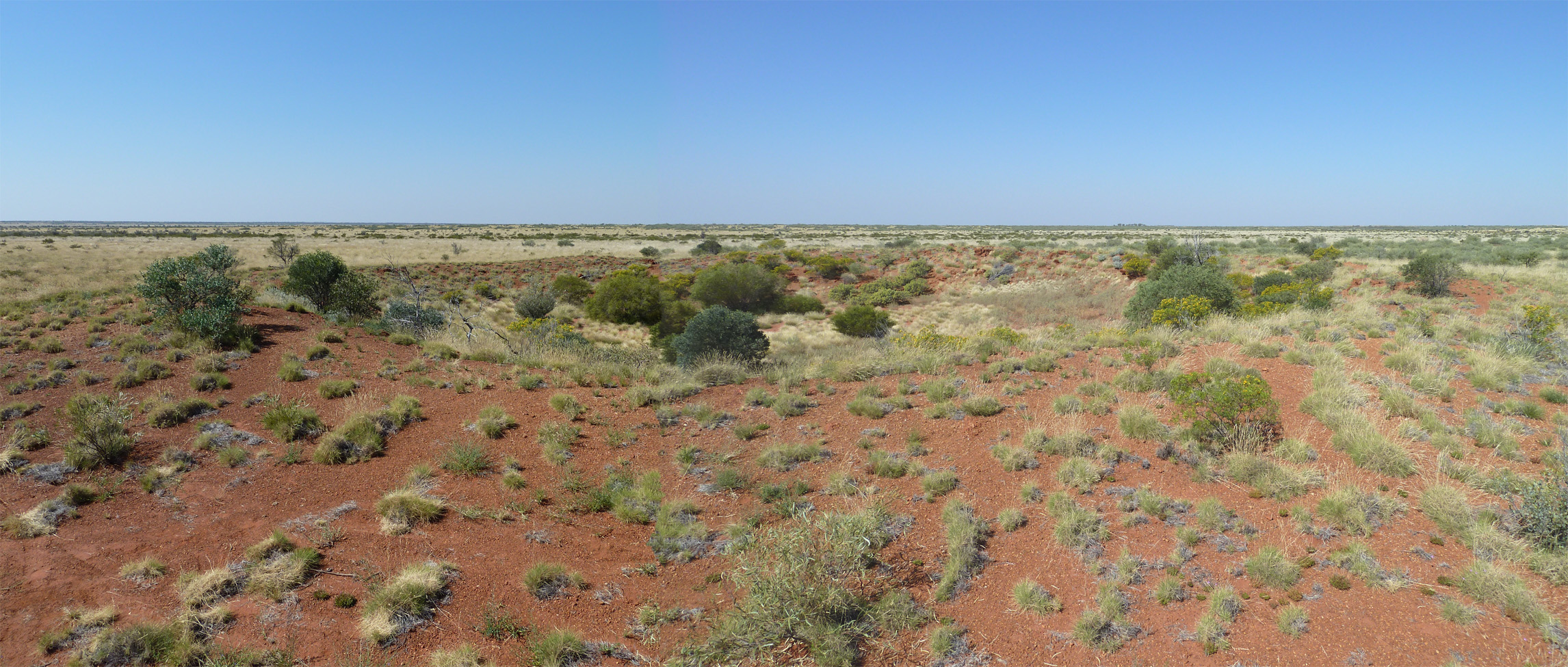 A panoramic stitch of two images of Veevers crater taken on 2nd August 2011, in Western Australia.